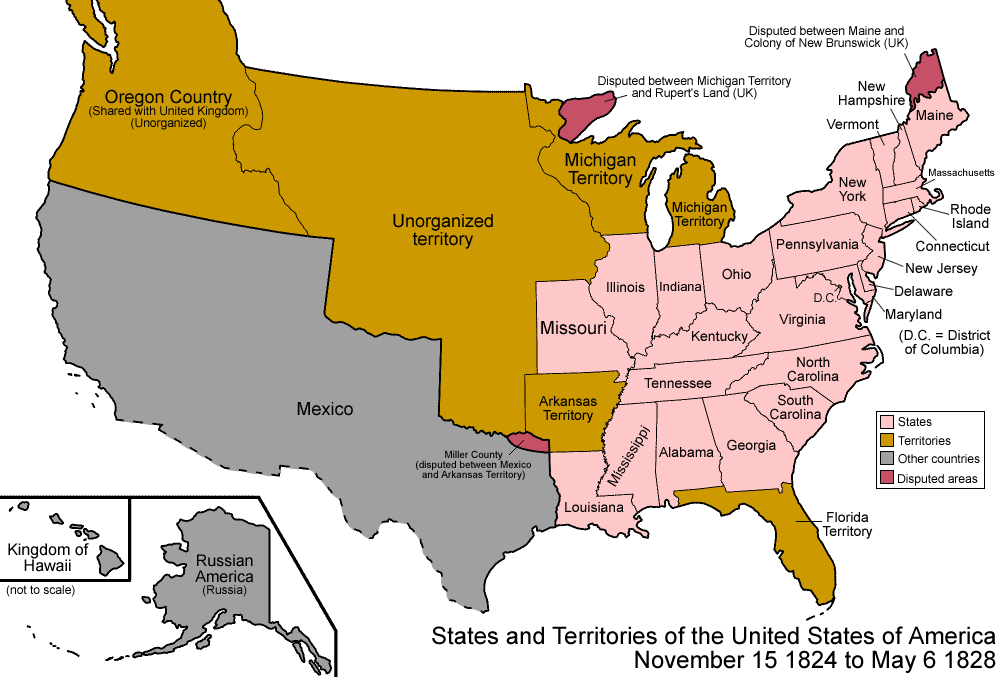 Map of the states and territories of the United States as it was from 1824 to 1828. On November 15 1824, Arkansas Territory shrank, the western portion becoming unorganized. On May 6 1828, Arkansas Territory was shrunk again, the remainder becoming unorganized.